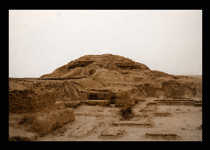 Ruins of Temple of Innana